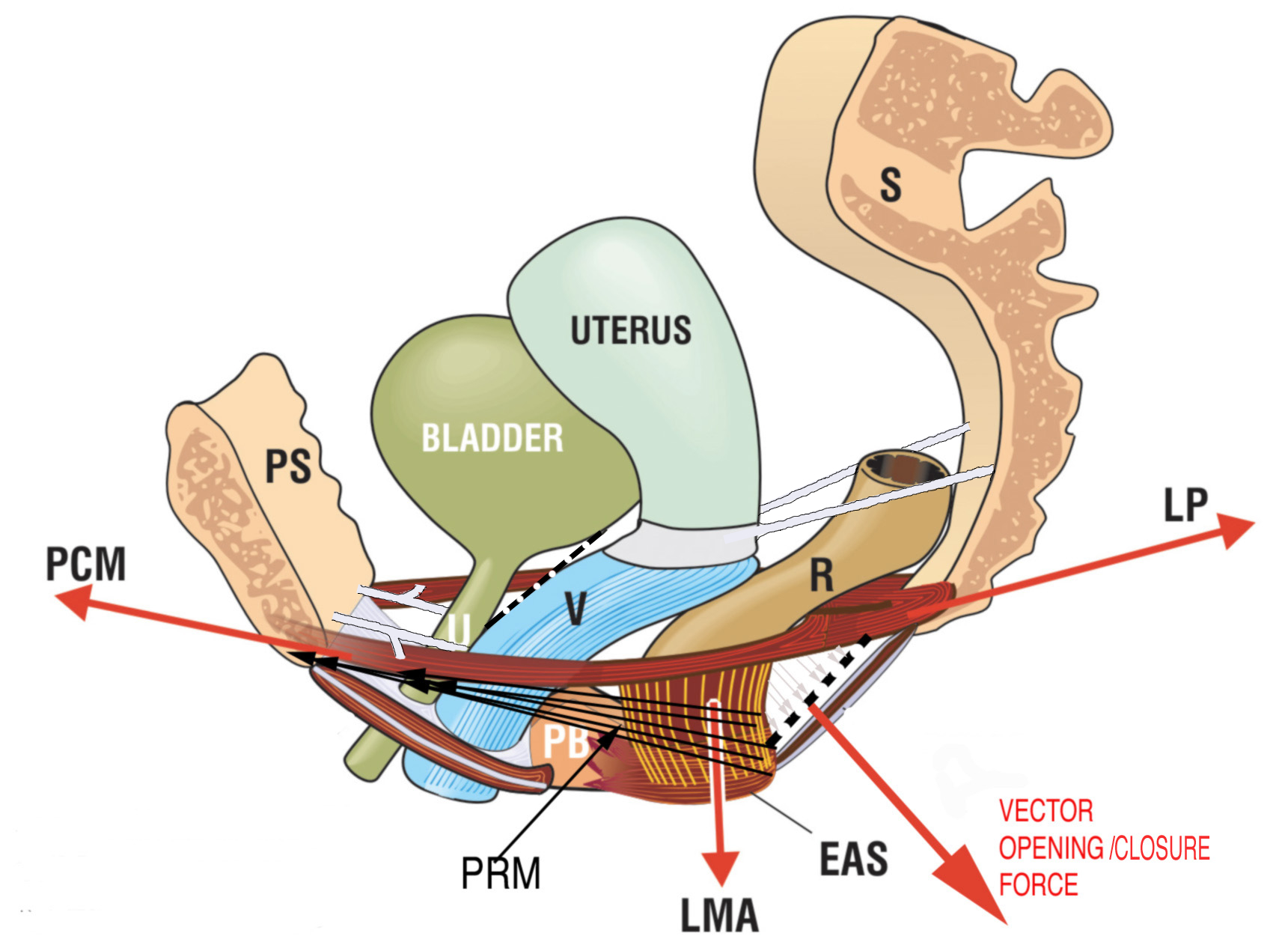 Figure 2. — Four main muscle vector forces work in a co-ordinated way to close or open the outlet tubes, urethra ‘U’, vagina ‘V’ and rectum ‘R’. It is evident that the arrows contract against the front and back ligaments (PUL, USL). (Perspective: sitting position.) Legends PUL=pubourethral ligament; USL=uterosacral ligament; PCM=anterior portion of pubococcygues muscle; LP=levator plate muscle; LMA=conjoint longitudinal muscle of the anus; PS=pubic symphysis; S=sacrum; EAS=external anal sphincter. The vector forces (arrows) contract against the suspensory pelvic ligaments, PUL attached to the urethra “U” and USL attached to the uterus. Their contractile strength may diminish when their insertion ligaments are lax, so that the muscles cannot adequately close the urethral or anal tubes (incontinence) or cannot open them properly (constipation, bladder emptying difficulties).